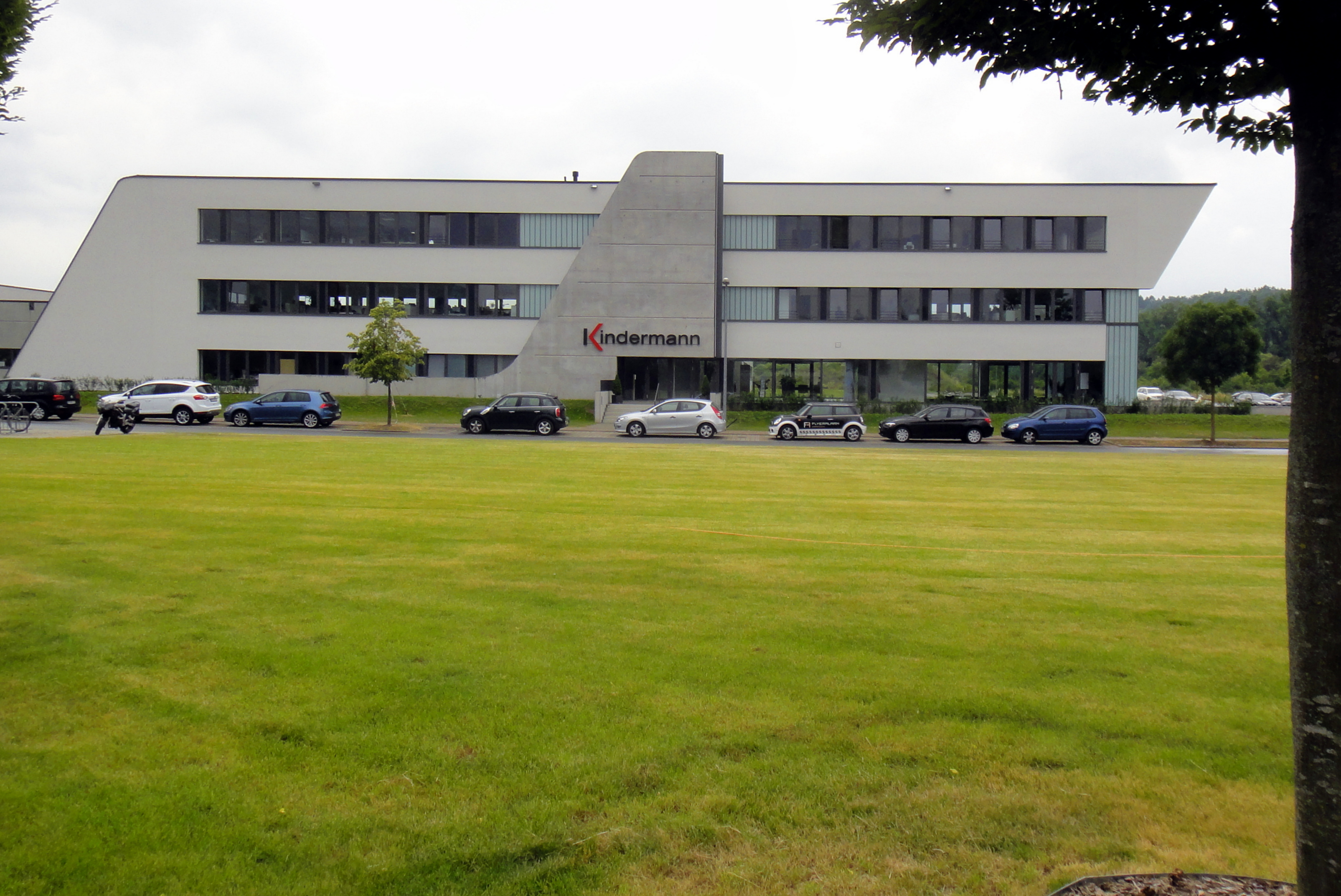 Kindermann office building, Eibelstadt